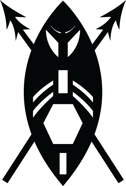 The Screaming Tribesmen logo commissioned by me for the Band's official website